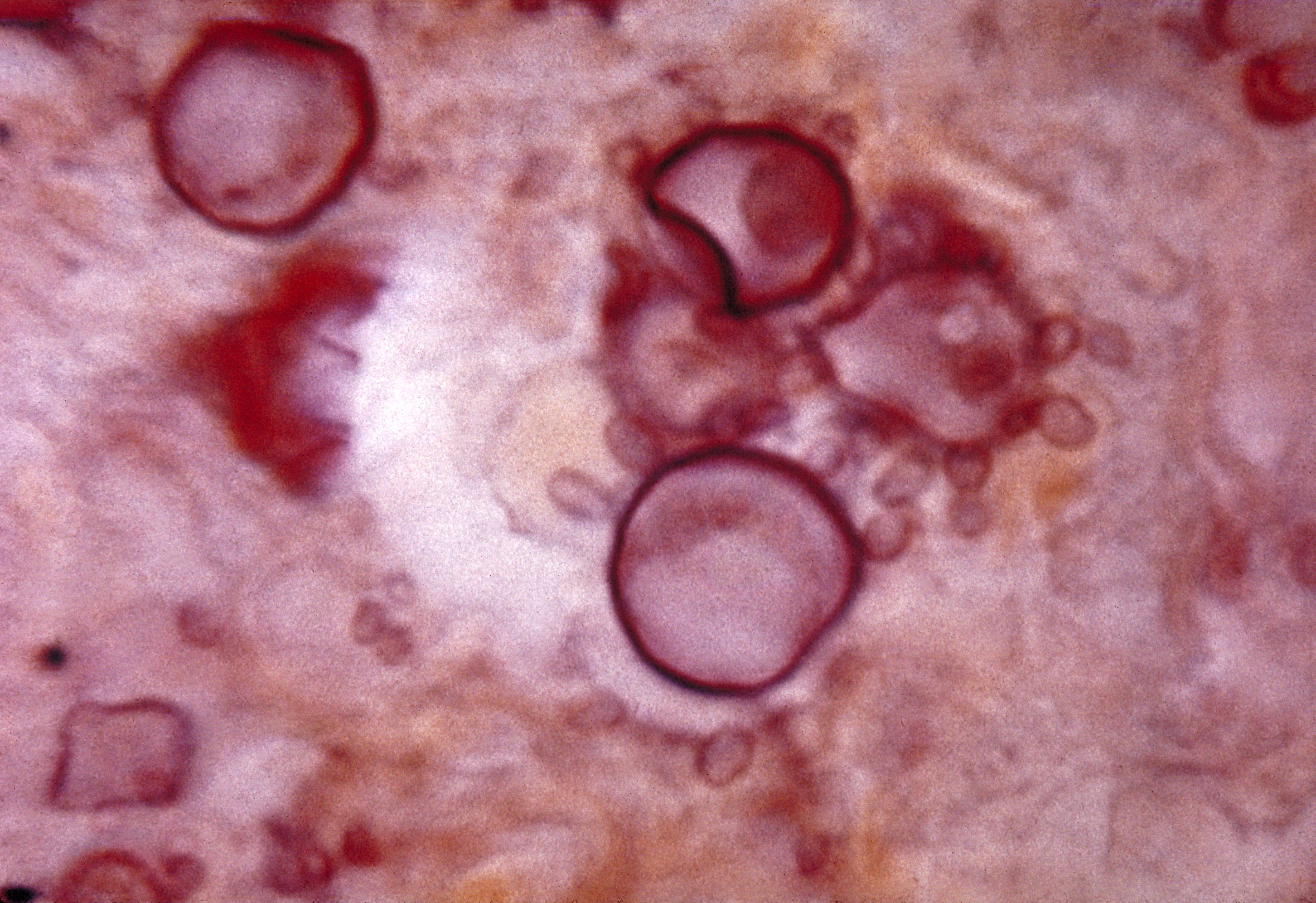 Histopathology of paracoccidioidomycosis